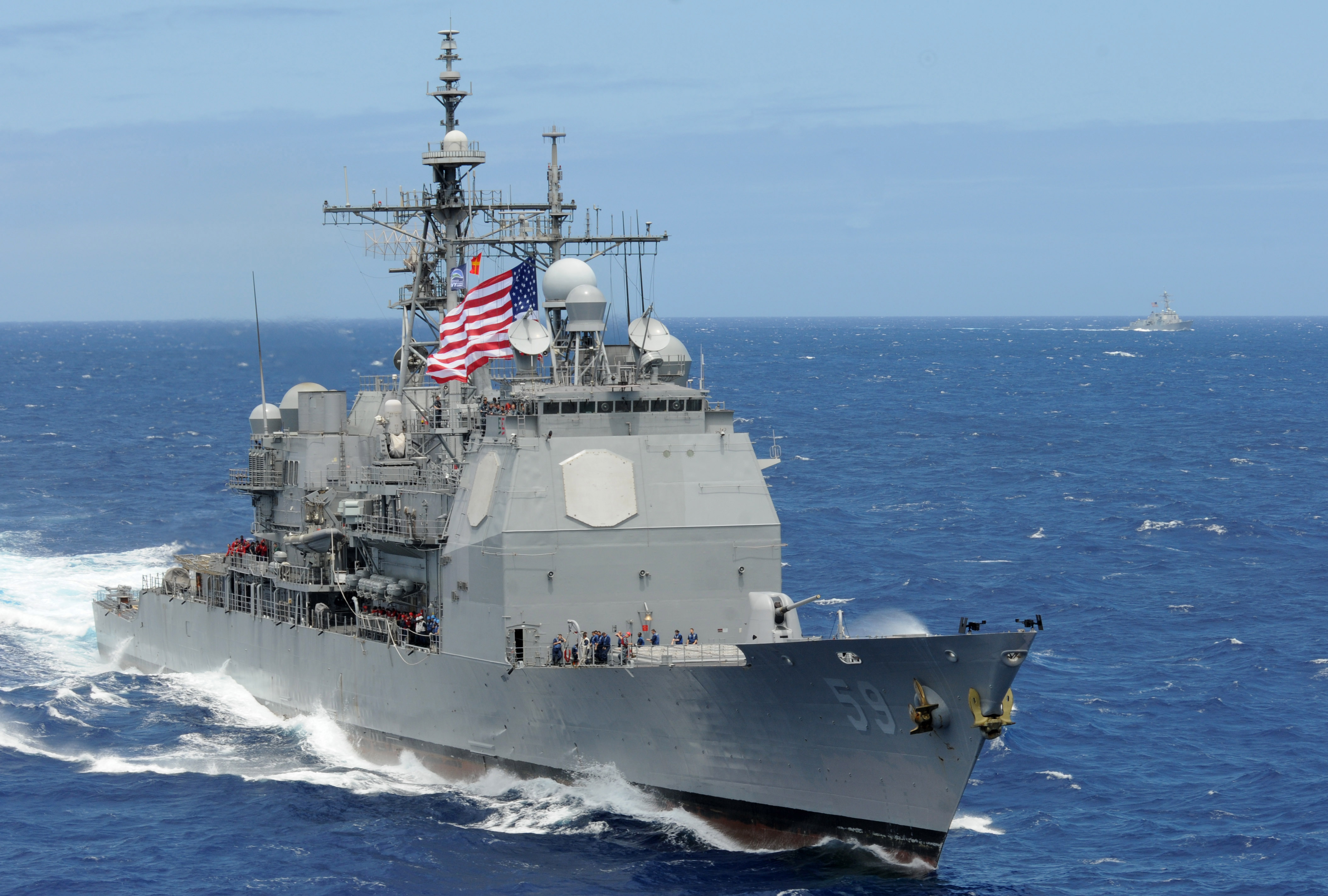 PACIFIC OCEAN (July 18, 2012) The guided-missile cruiser USS Princeton (CG 59) is underway during the Great Green Fleet demonstration portion of the Rim of the Pacific (RIMPAC) 2012 exercise. Princeton took on a 50-50 blend of advanced biofuel and traditional petroleum-based fuel from the military sealift command fleet replenishment oiler USNS Henry J. Kaiser (T-AO 187). Twenty-two nations, more than 40 ships and submarines, more than 200 aircraft and 25,000 personnel are participating in RIMPAC exercise from Jun. 29 to Aug. 3, in and around the Hawaiian Islands. The world’s largest international maritime exercise, RIMPAC provides a unique training opportunity that helps participants foster and sustain the cooperative relationships that are critical to ensuring the safety of sea lanes and security on the world’s oceans. RIMPAC 2012 is the 23rd exercise in the series that began in 1971. (U.S. Navy photo by Mass Communication Specialist 2nd Class Eva-Marie Ramsaran/Released) 120718-N-WA347-097 Join the conversation navylive.dodlive.mil